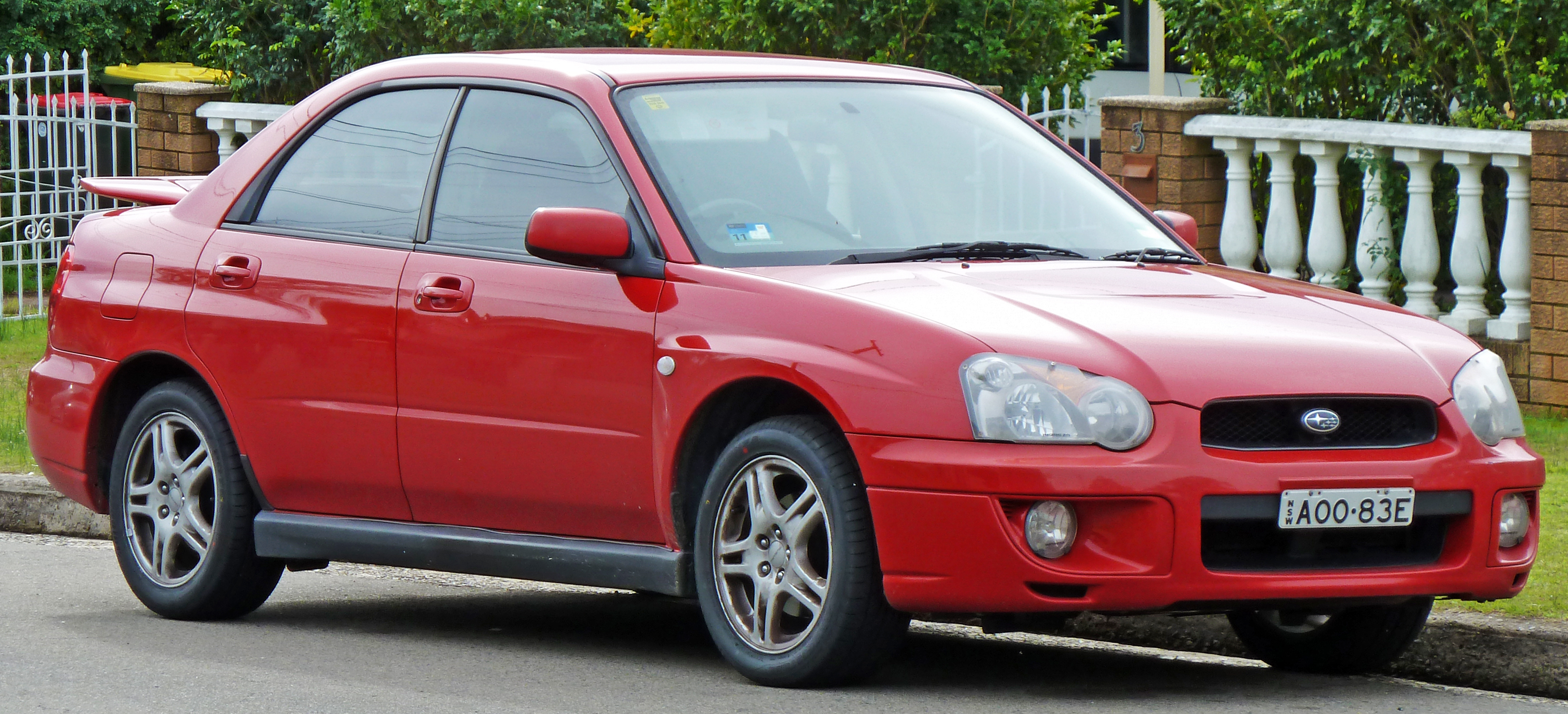 2003 Subaru Impreza (GDE MY03) RS sedan. Photographed in Sylvania, New South Wales, Australia.